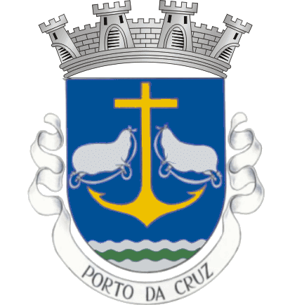 Coat of Arms of freguesia of Porto da Cruz, Machico, Madeira Island.